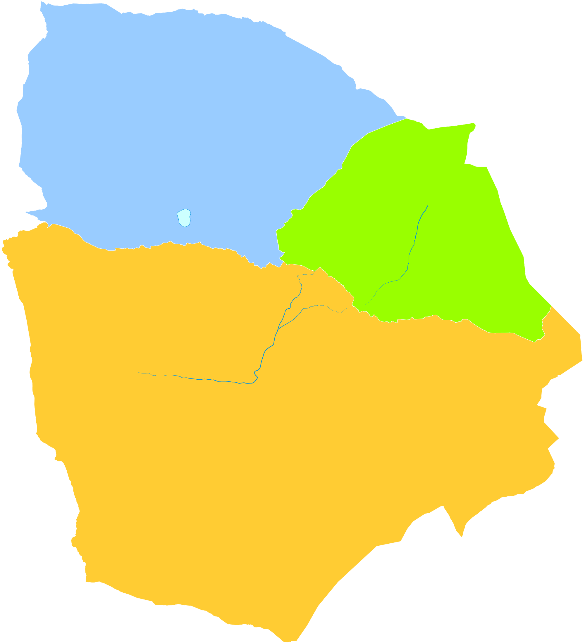 administrative divisions of Hami City, Xinjiang, China